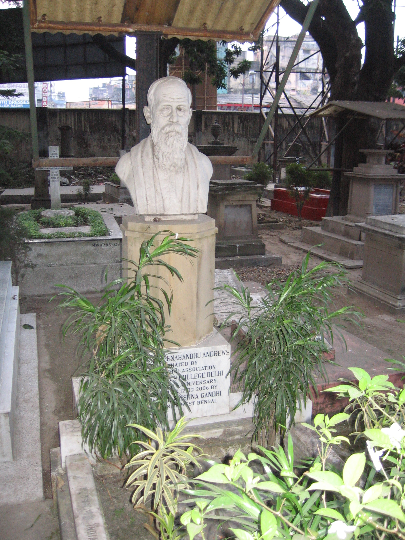 The bust of C.F.Andrews (1871-1940), Anglican priest and friend of the Mahatma Gandhi. Over his tomb, in the Christian cemetery of Calcutta.